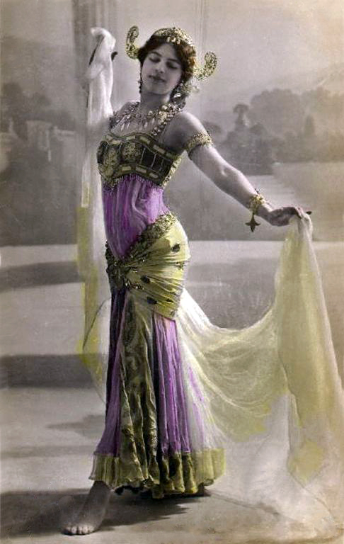 Postcard of Mata Hari in Paris